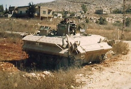 ליווי שיירה בכפר ארנון שנת 1995 (התמונה צולמה על יד עופר מרגלית)